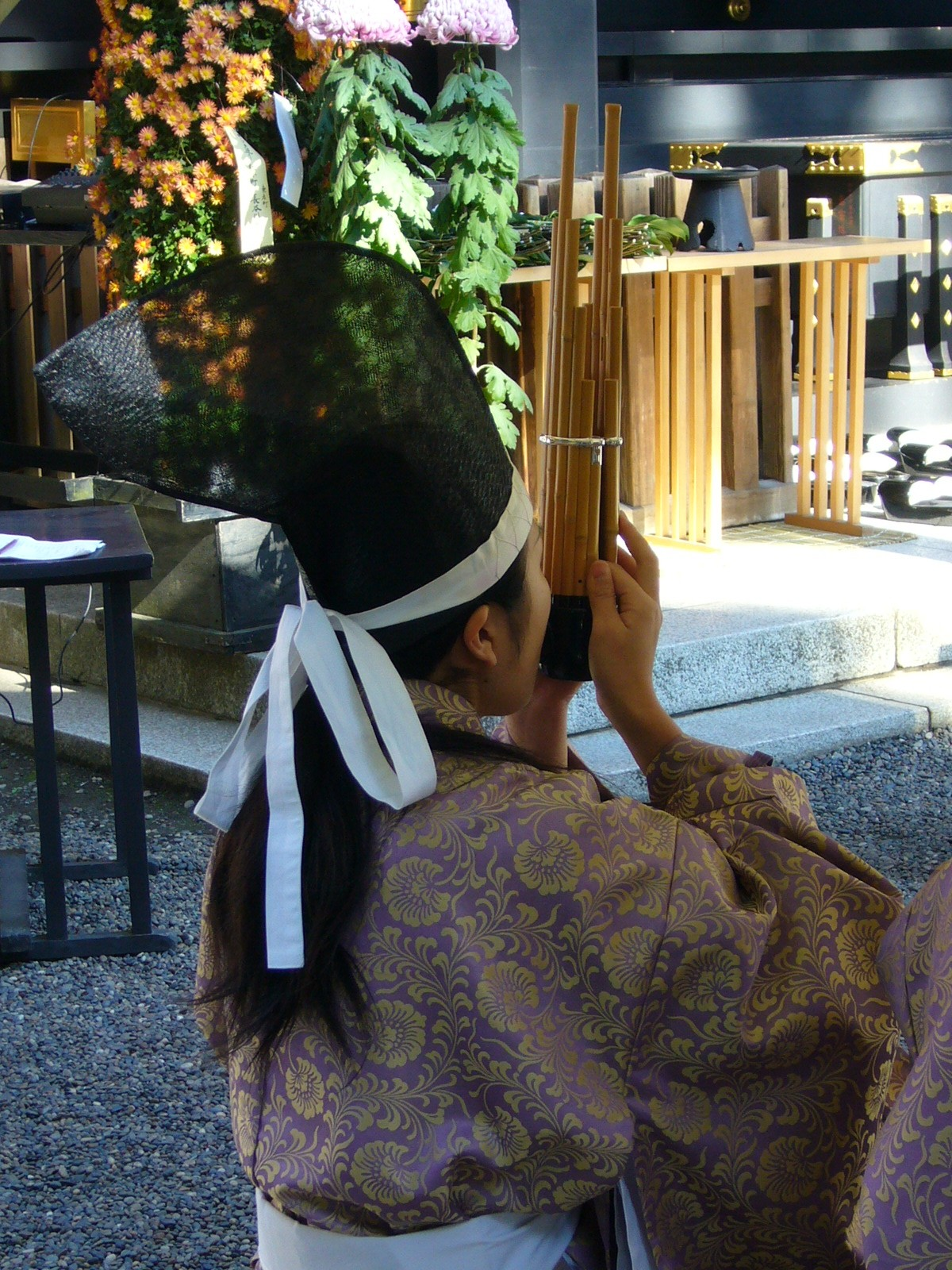 a wind instrument composed of a mouthpiece and seventeen bamboo pipes of various lengths ,Sho,katori-jingu-shrine,katori-city,japan